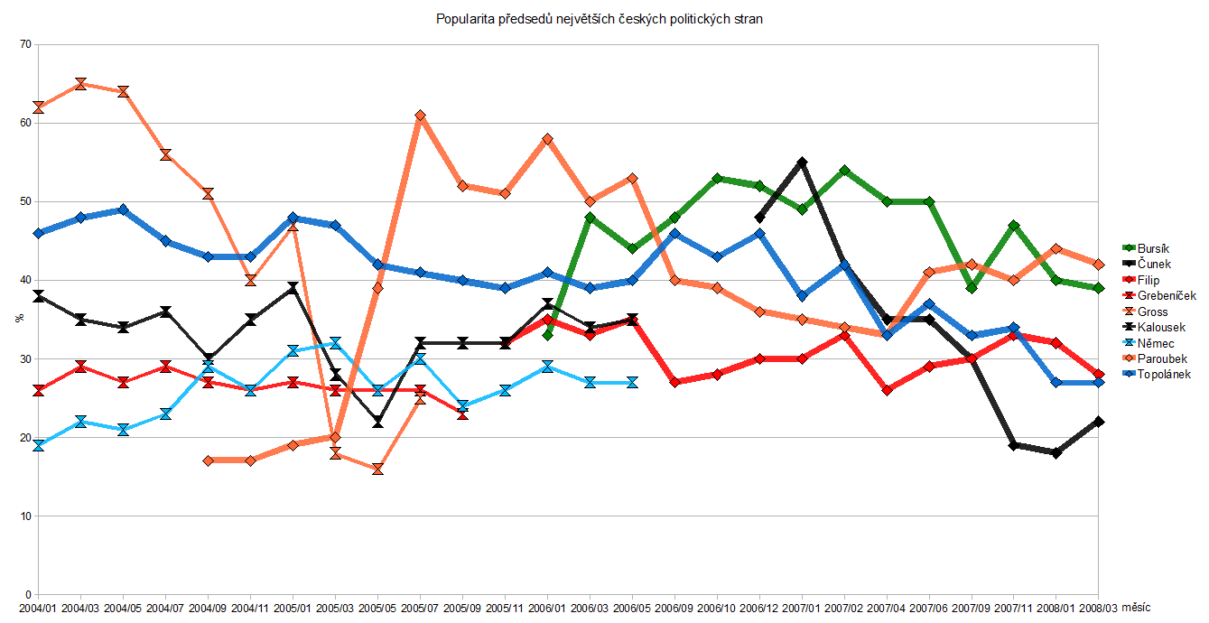 A chart showing the popularity of chairmen of the larges political parties in the Czech Republic (2004–2008), based on data from [1], [2], [3], [4], [5], [6]. (Created in OOo 2.4.)